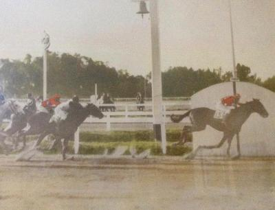 Bravio winning the Presidenf of the Republic Prize. 09/VII/1939